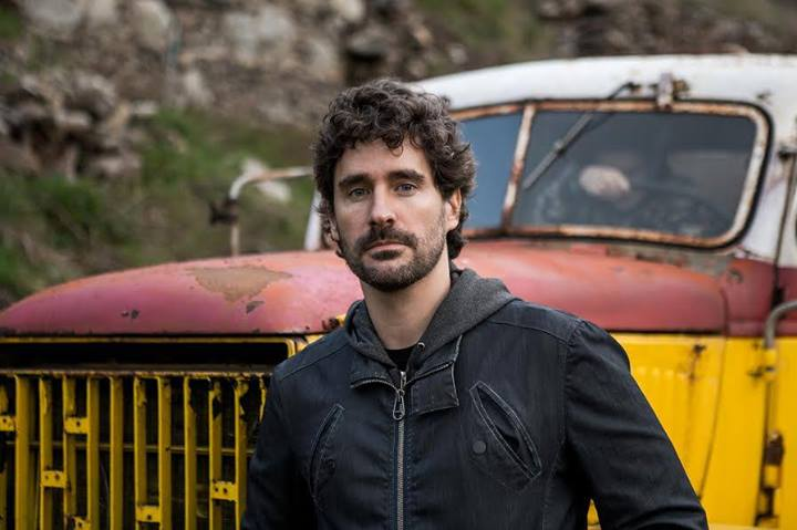 Edu Quindós durante el rodaje del videoclip Hello para la pelicula Nick